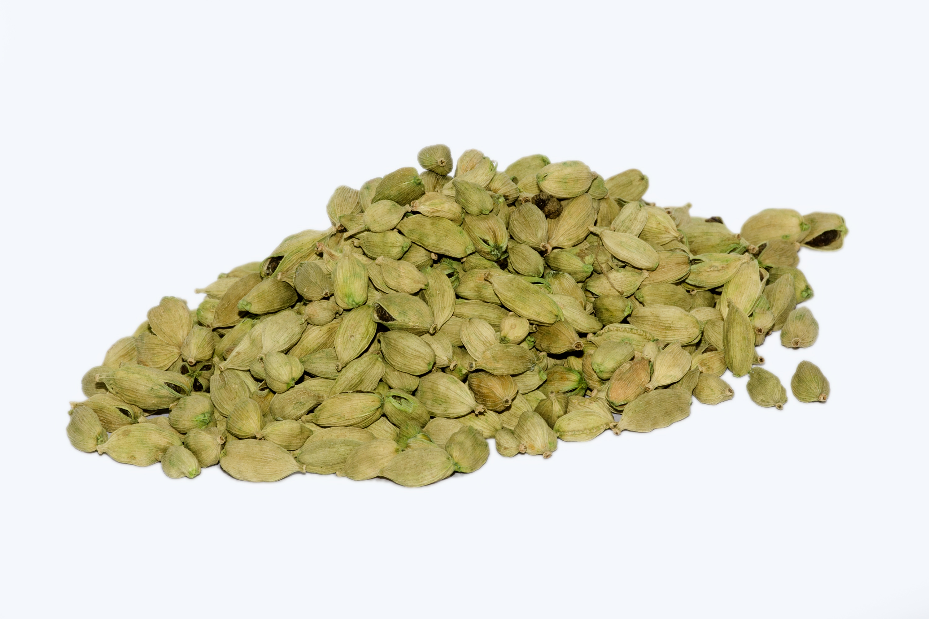 100 Cardamom pods